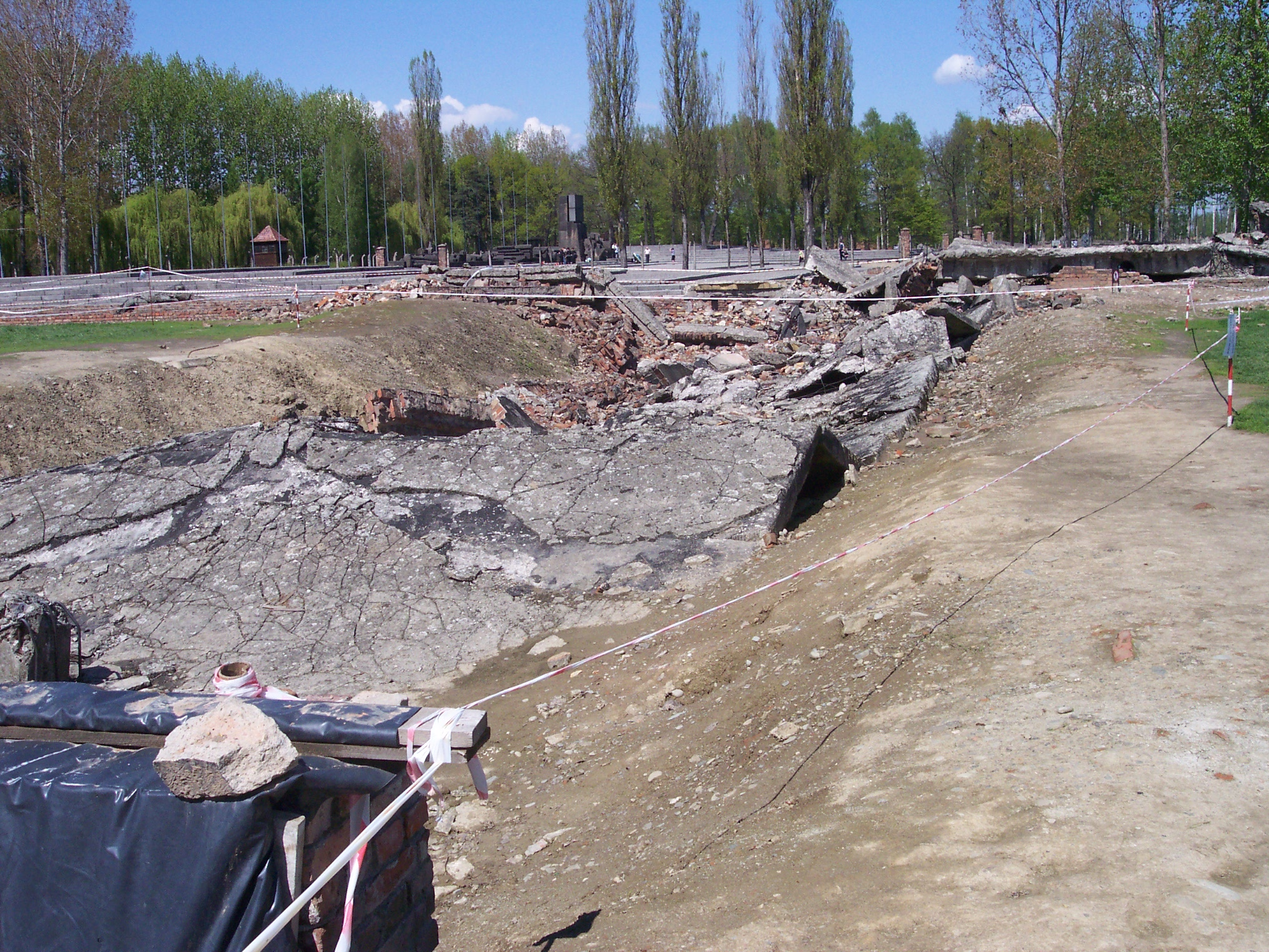 Ruins of the gas chamber of Crematorium II in in the concentration camp Auschwitz II (Birkenau)